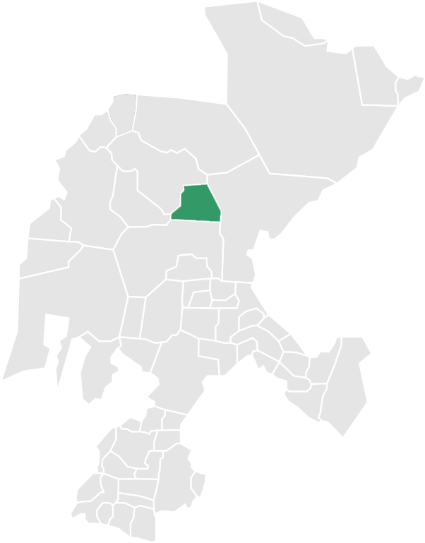 Map of the Municipality of Cañitas de Felipe Pescador in Zacatecas, México.